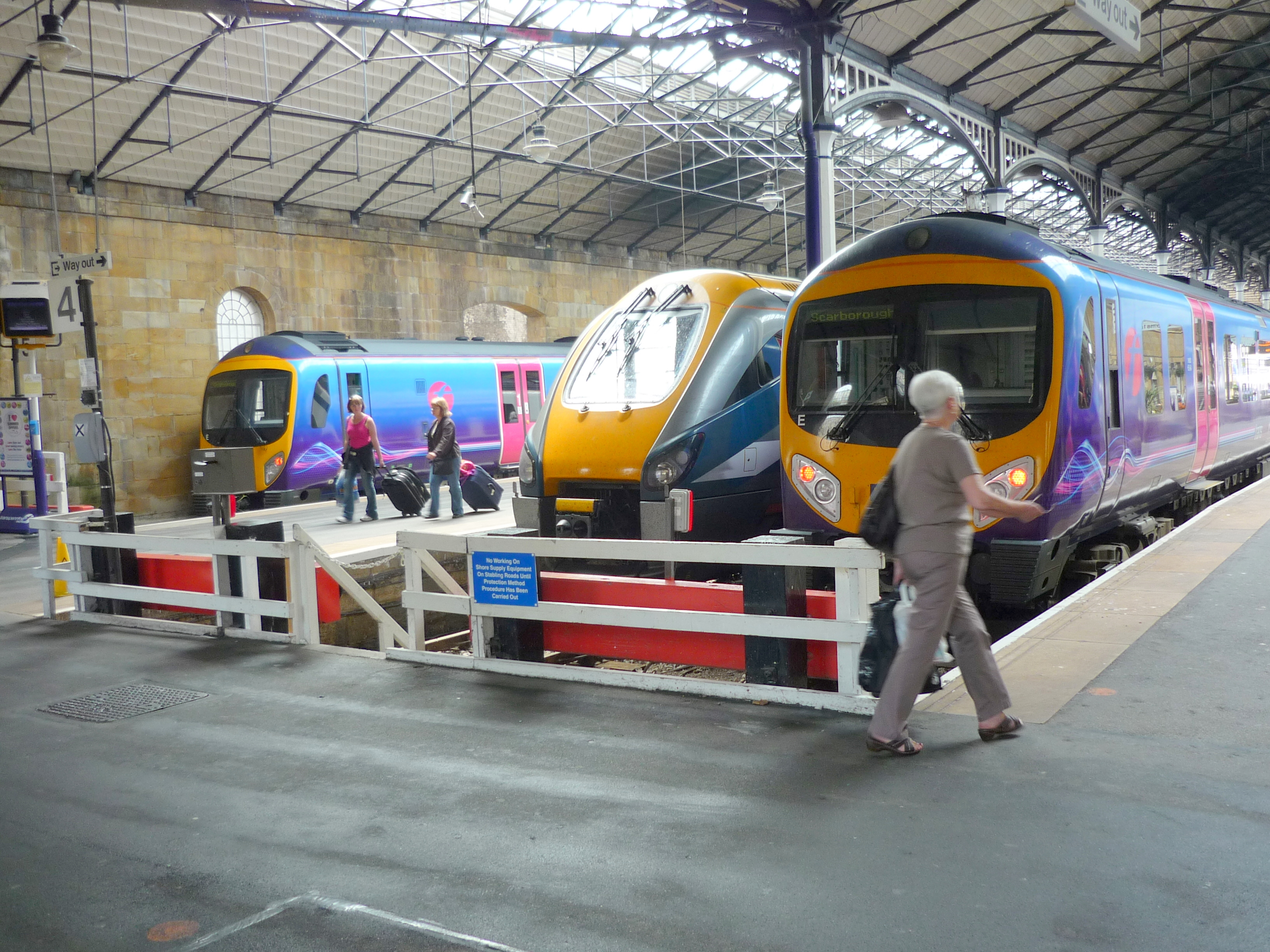 Platforms 3-5 at Scarborough are within the train shed. Two Class 185 Desiro DMUs and a Class 222 DEMU (diesel-electric multiple unit) stand.